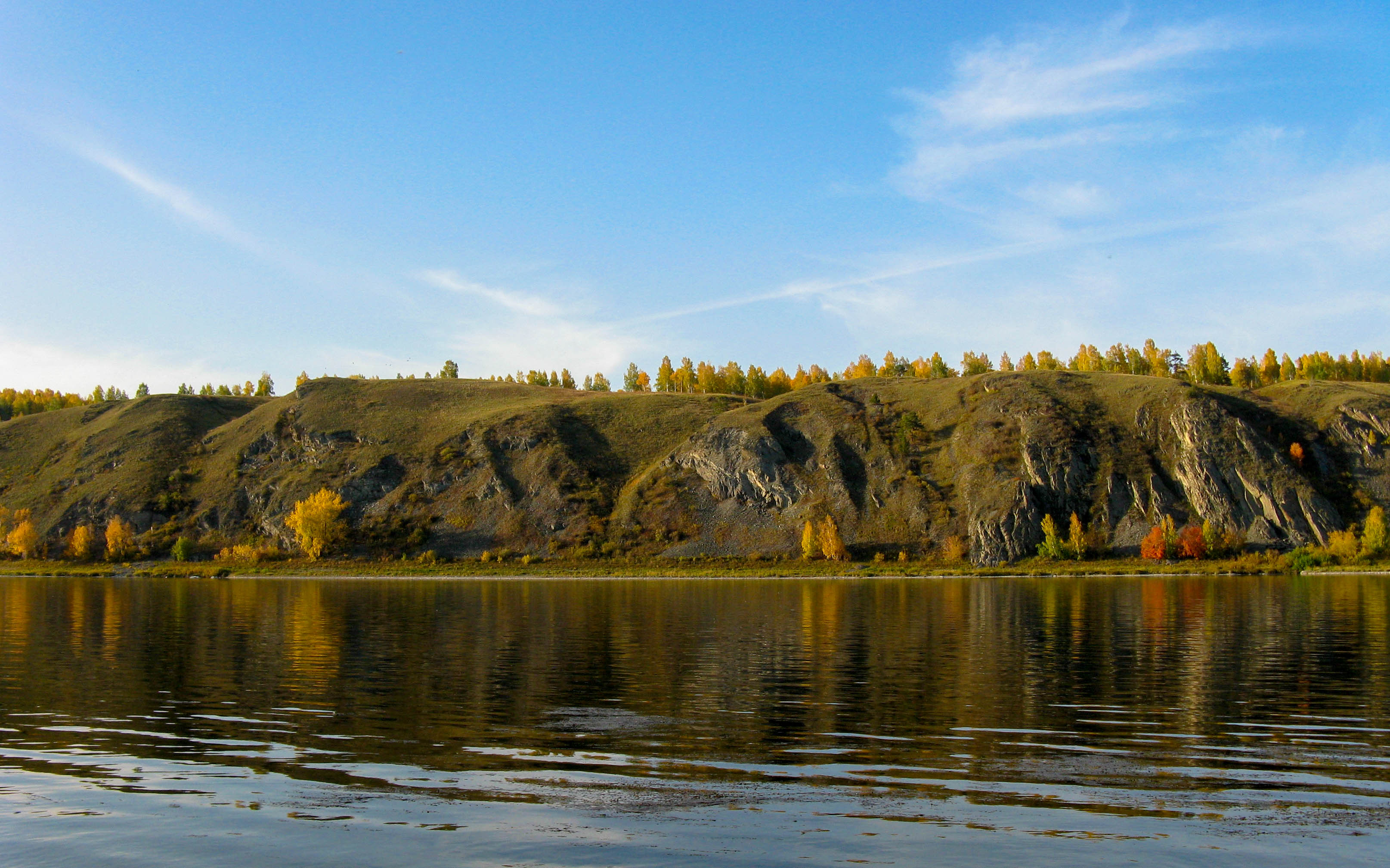 Tutalskie Cliffs, sight from the opposite bank of the river Tom.